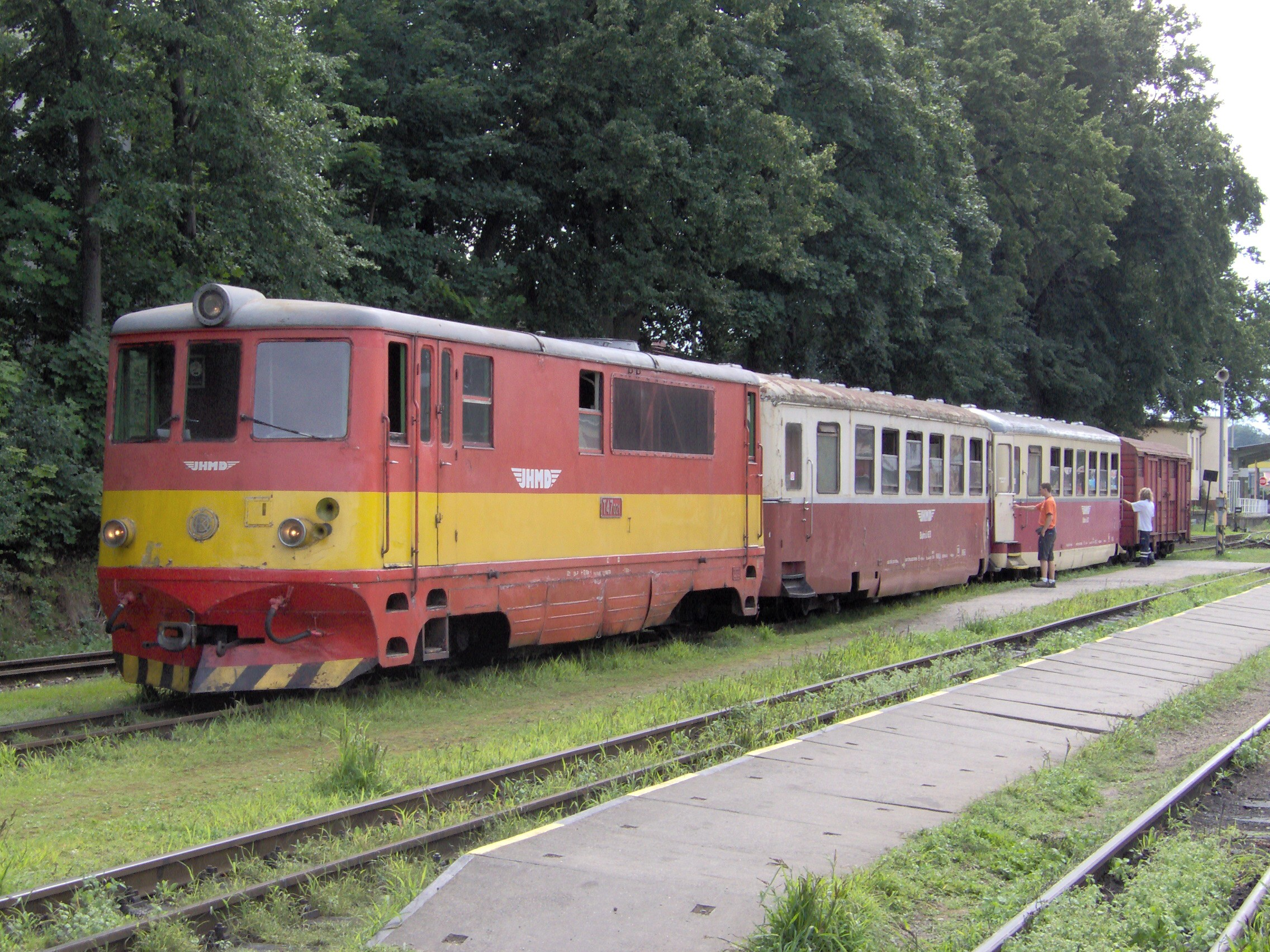 JHMD train with T 47.021 (705.921) diesel locomotive, Jindřichův Hradec, Jindřichův Hradec District, Czech Republic